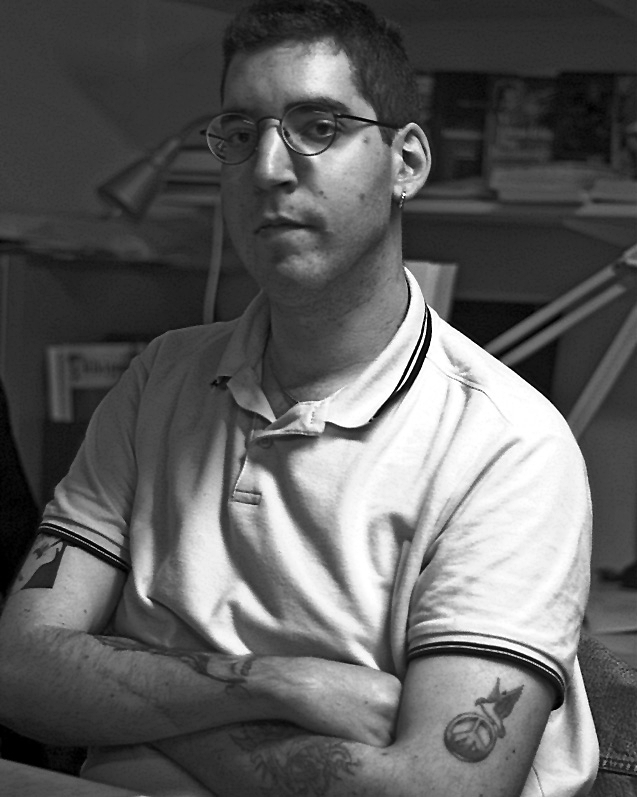 Journalist Fredrik Jönsson